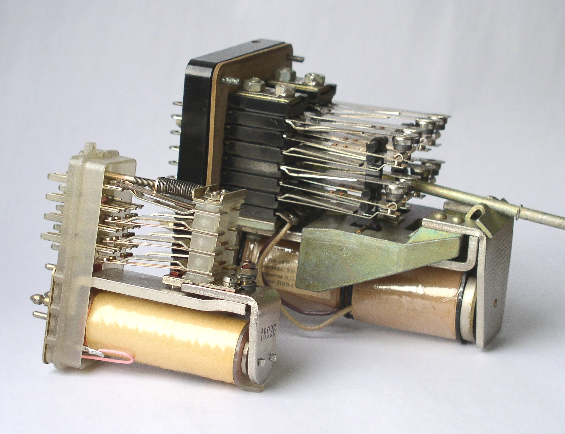 Types of Relais for Railway Signalling C and N